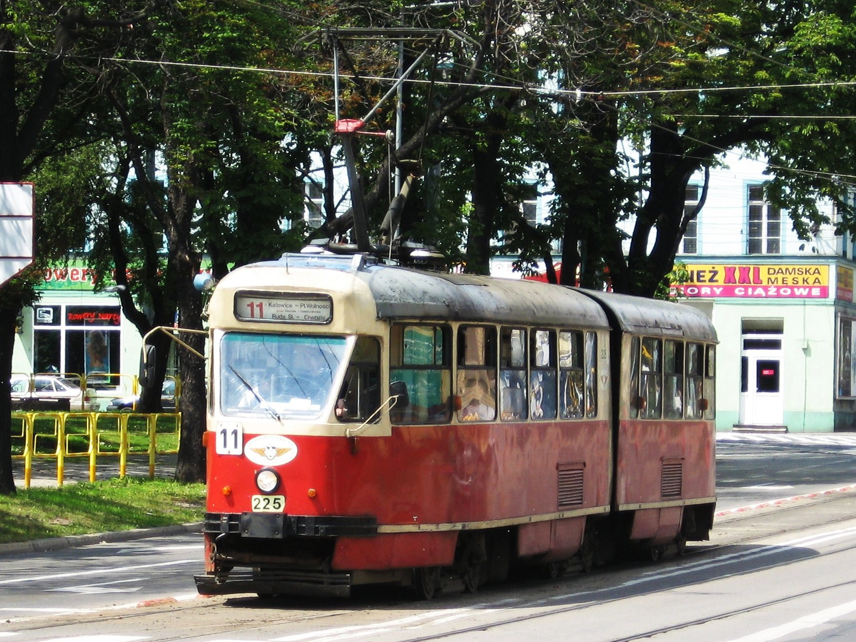 Konstal 102Na tram (#225) in Chorzów, Poland.